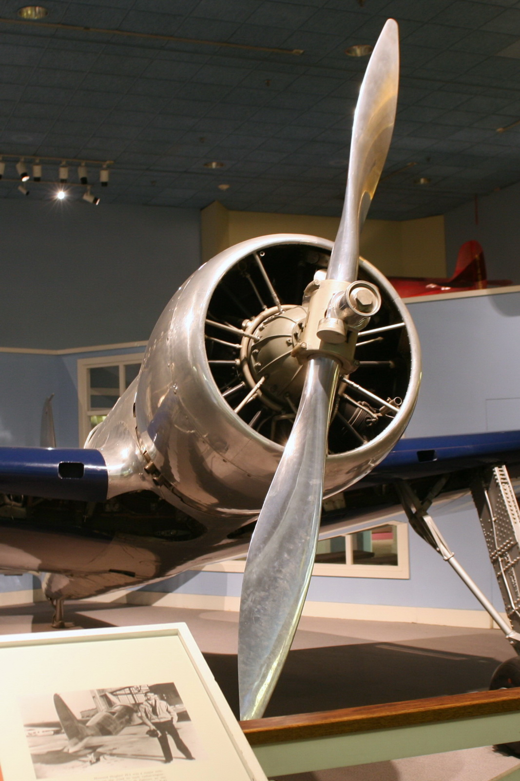 Hughes broke the transcontinental U.S. speed record in the H-l on January 19, 1937, flying from Los Angeles to Newark, New Jersey, in 7 hours, 28 minutes, and 25 seconds. His average speed for the 4,000-kilometer (2,490-mile) flight was 535 kilometers (332 miles) per hour.